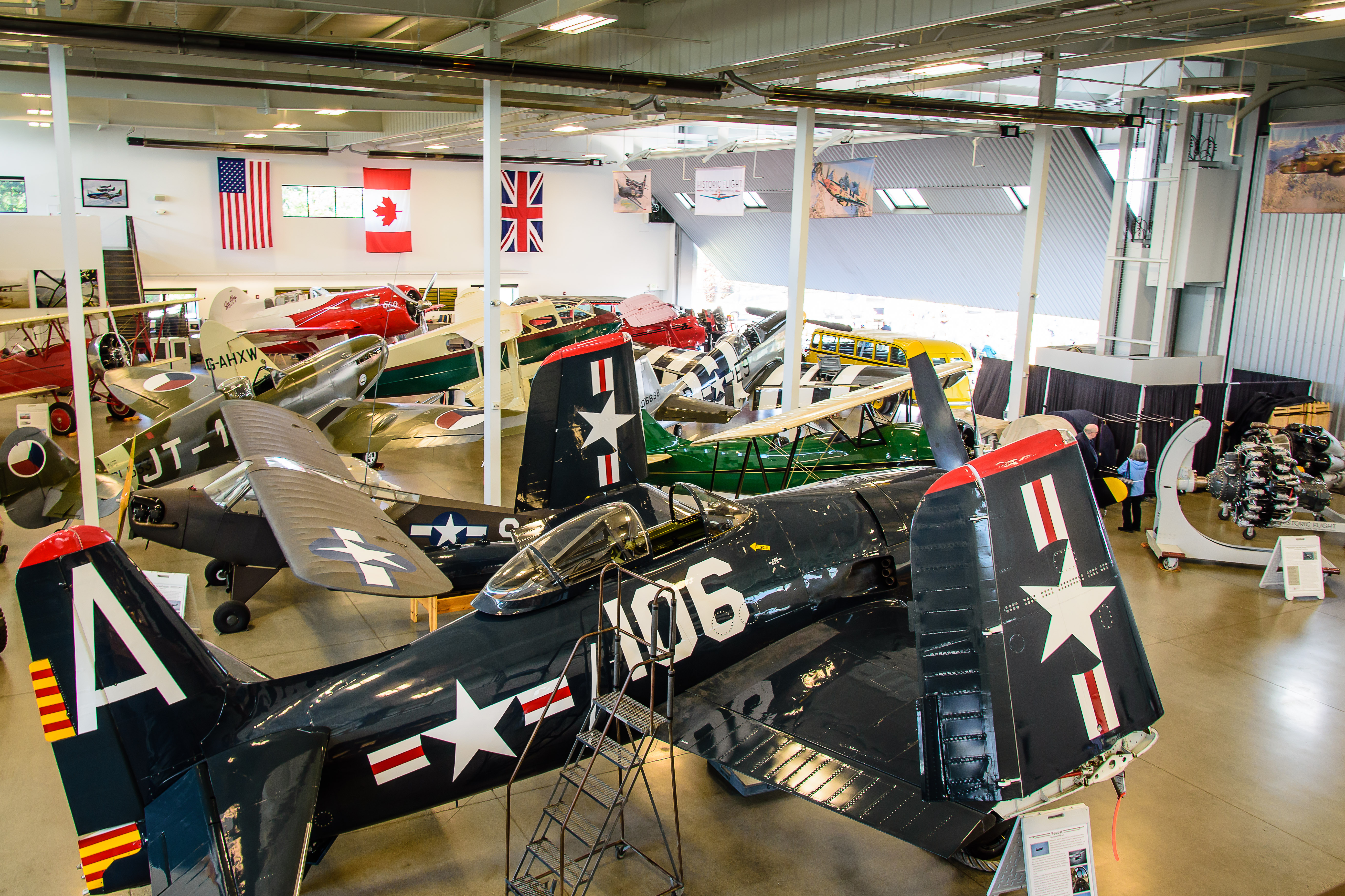 Historic aircraft in The Historic Flight Foundation's Hangar at Paine Field in Mukilteo, Washington.